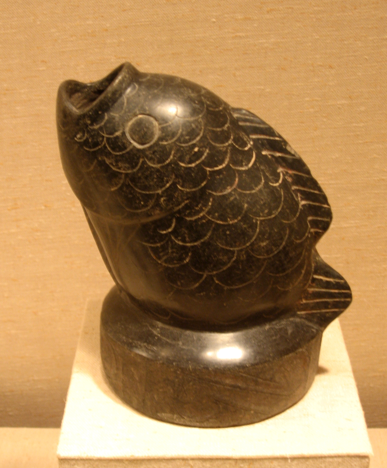 Ceramic fish-shaped vessel identified as Olmec. Painted black with traces of cinnabar. 1200 - 900 BC. Photo by Madman.